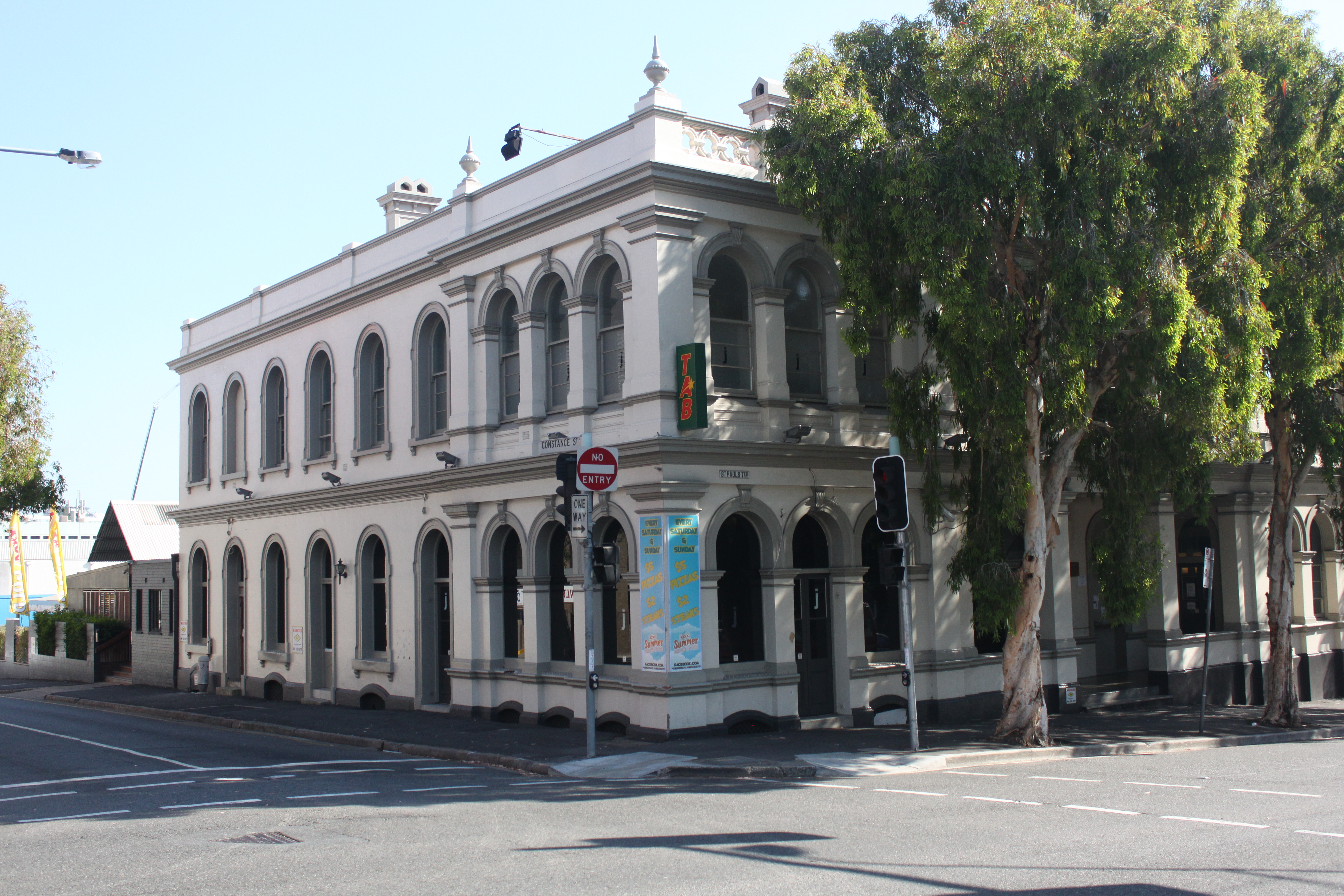 Richard Gailey's Work